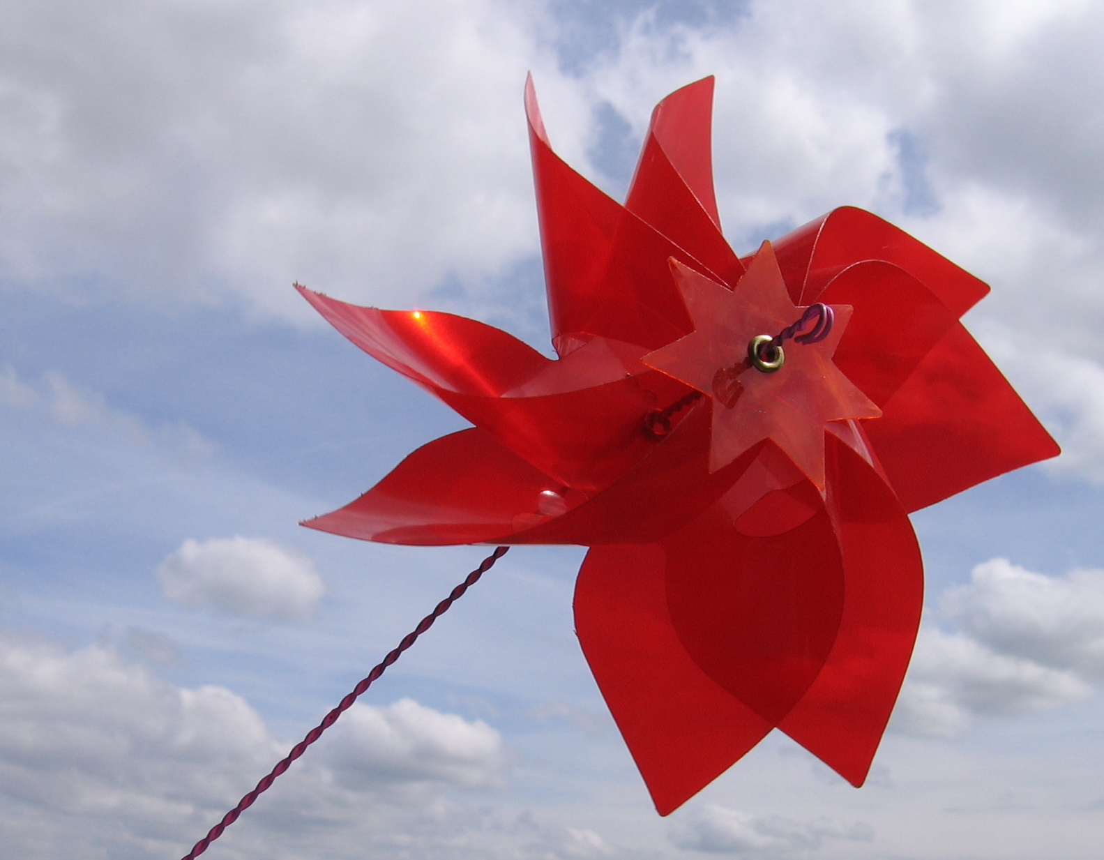 Red pinwheel